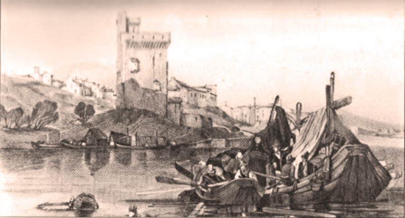 Boat accross the Rhone XIXe